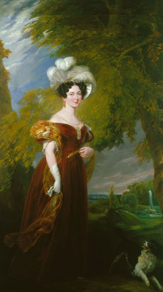 Victoria, Duchess of Kent (1786-1861), mother of Queen Victoria